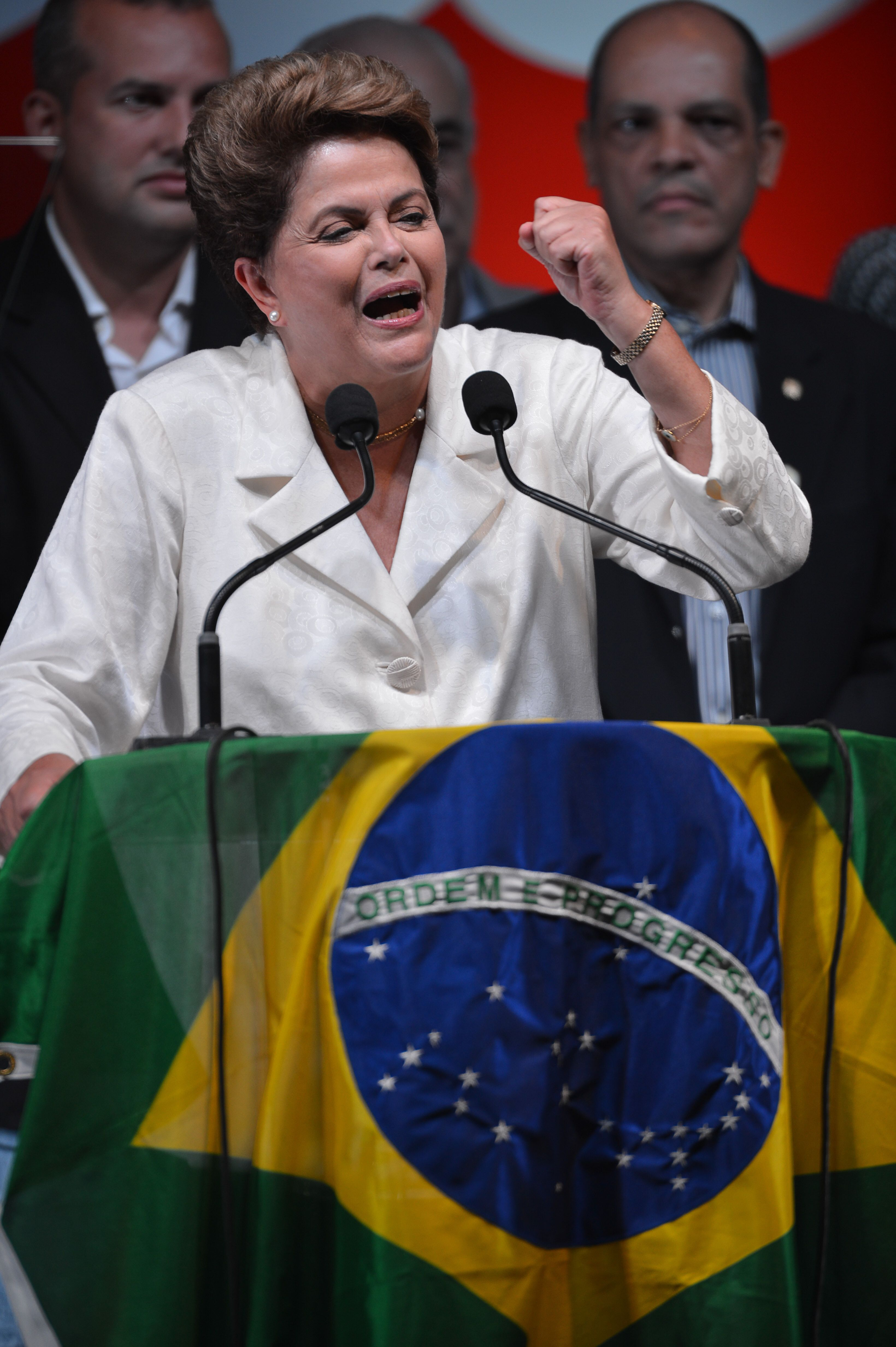 Dilma Rousseff makes a speech after winning the 2014 Brazilian election